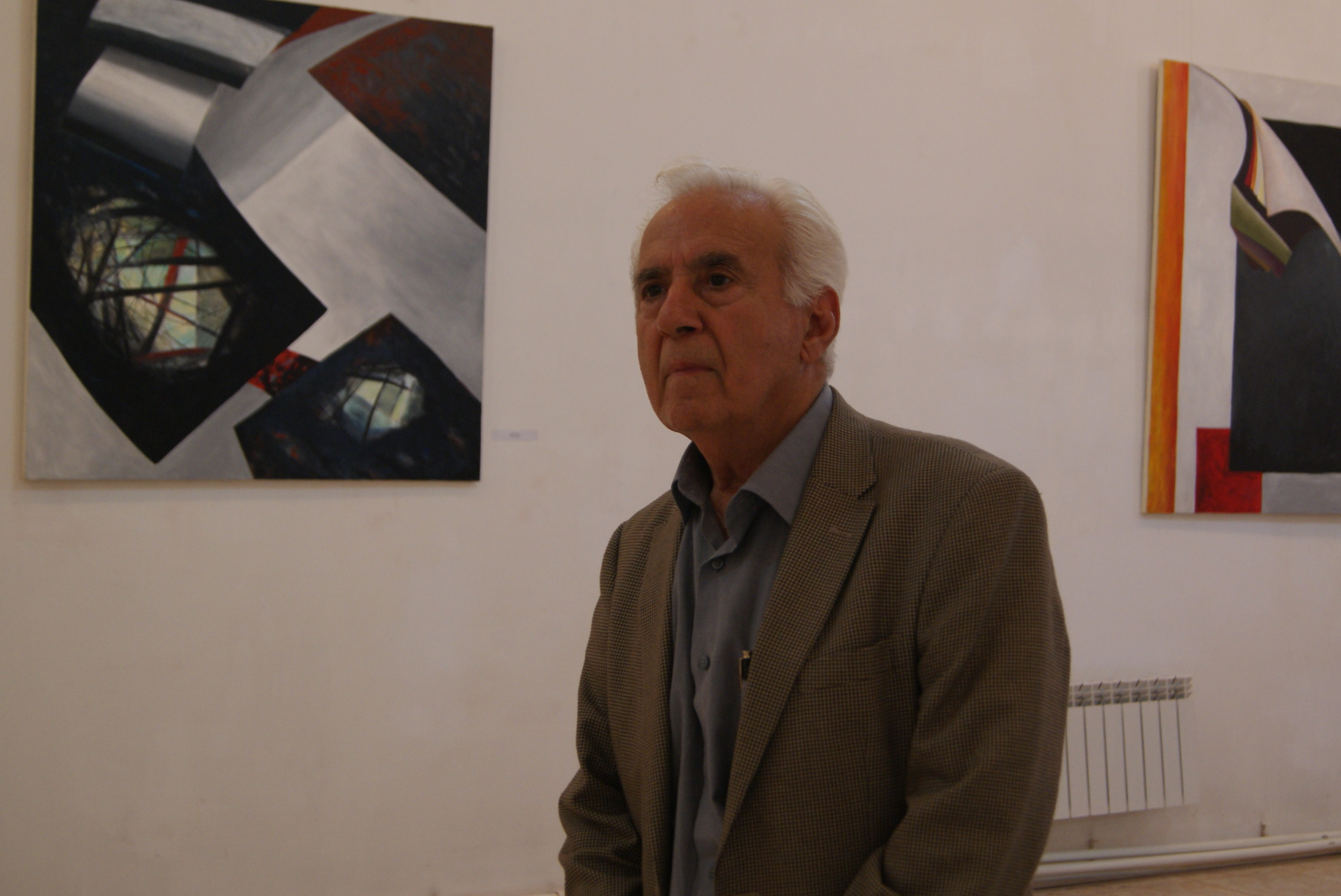 Asilva's exhbition at Modern Art Musseum, Yerevan